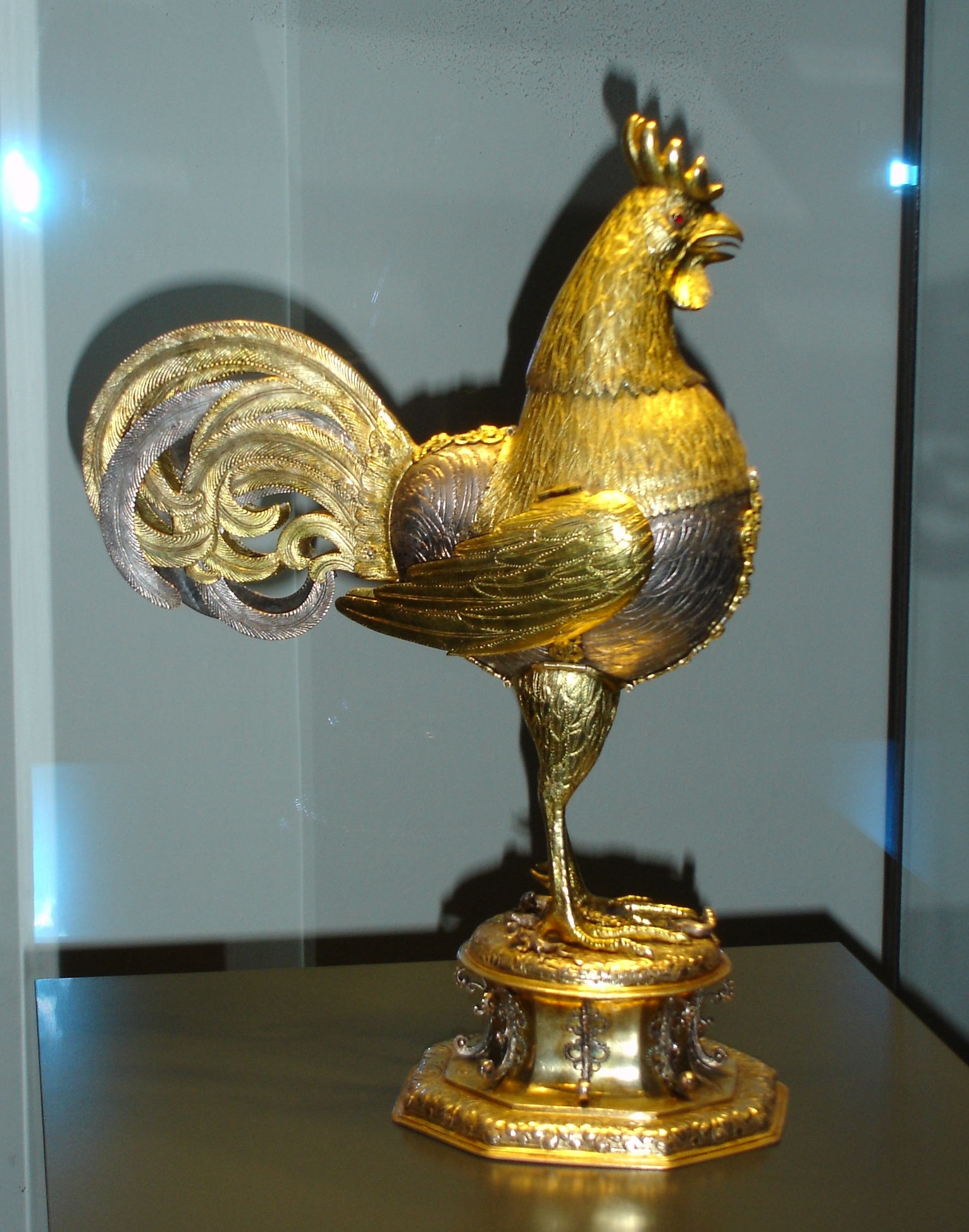 Golden rooster in the historical city hall in Münster, Westphalia, Germany